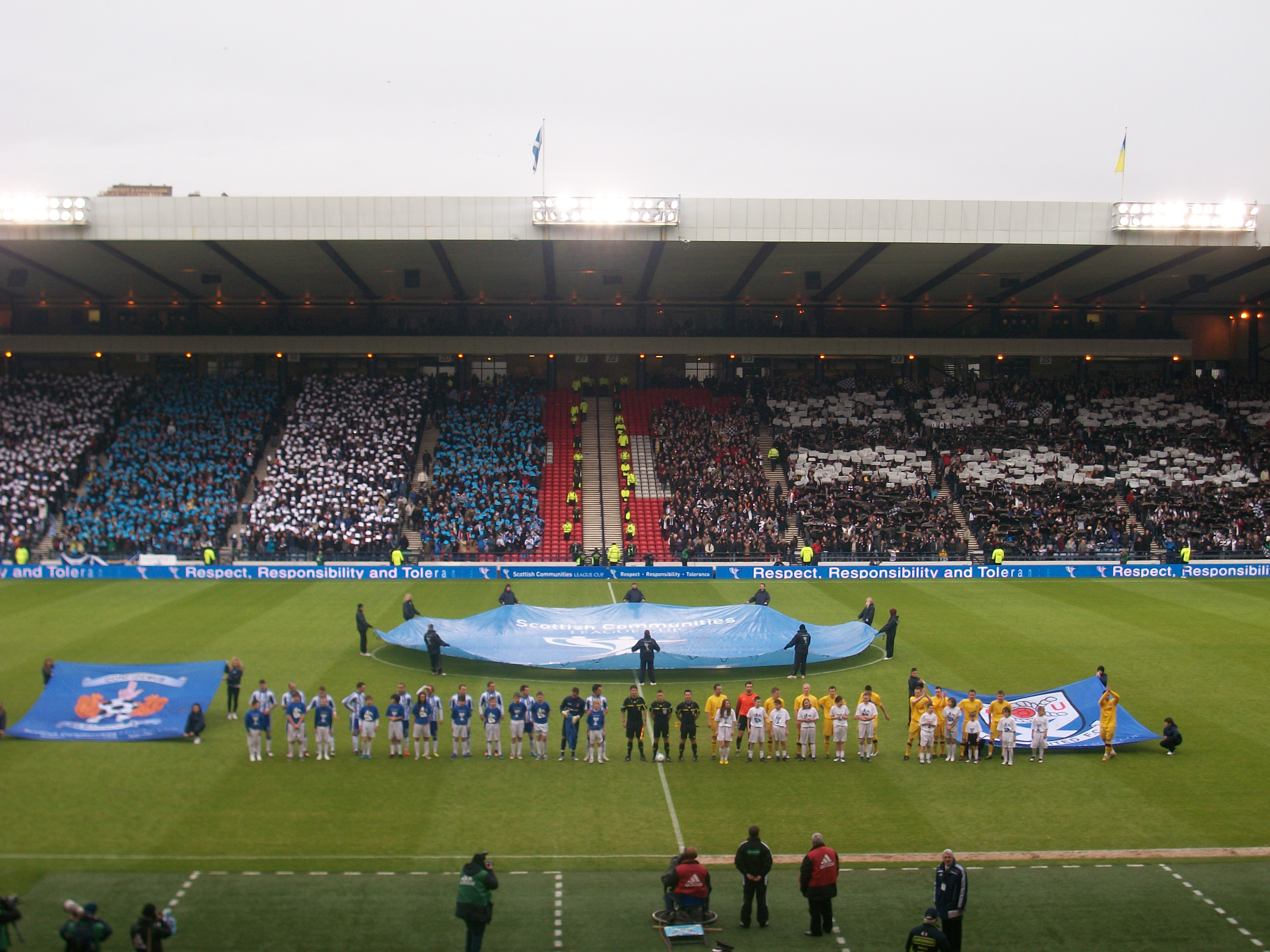 Kilmarnock and Ayr United line up at Hampden Park before their 2012 League Cup semi-final. Both sets of fans behind the players hold up cards to form a display.